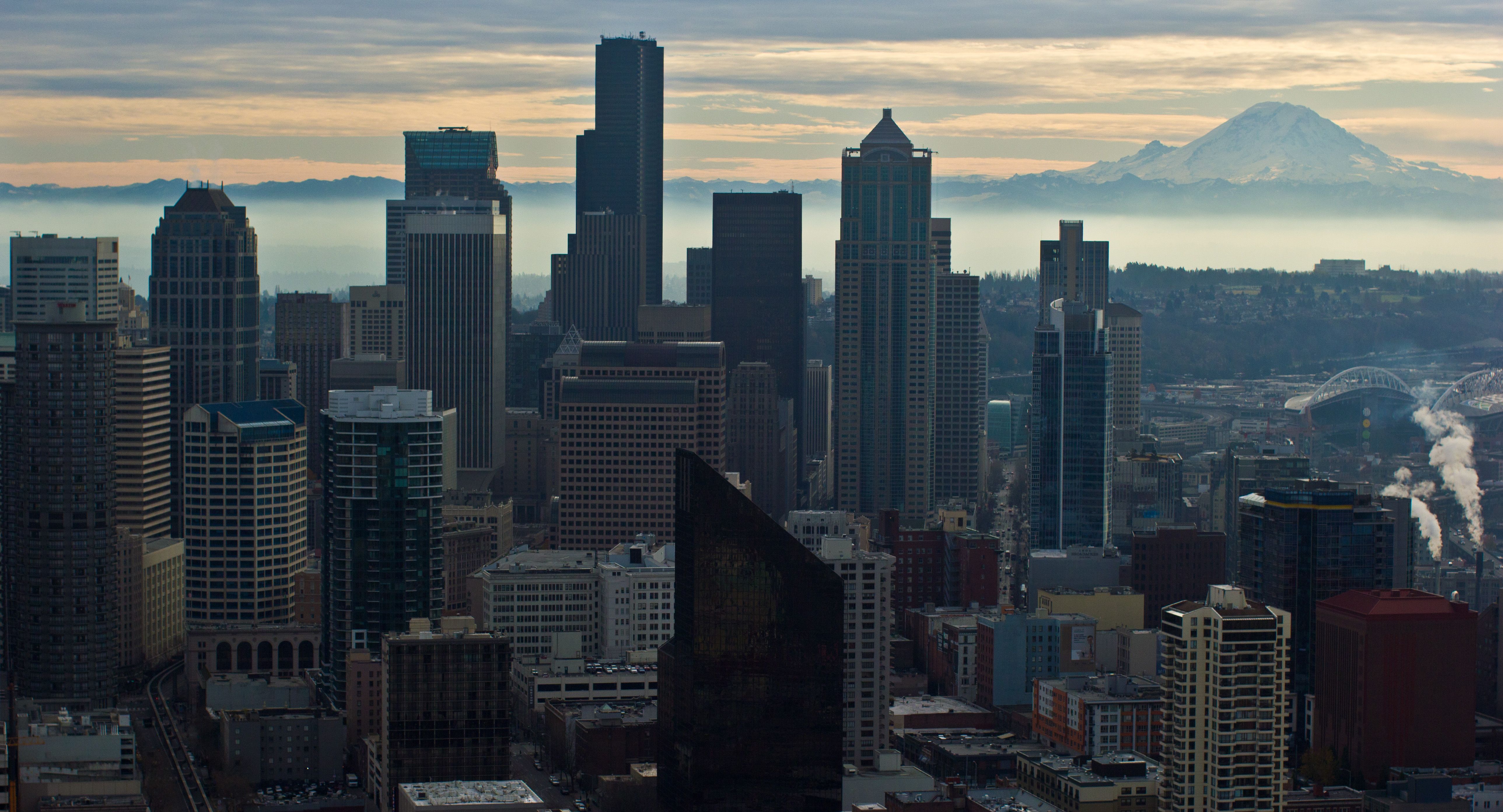 Seattle and Mt. Rainier as seen from the Space Needle